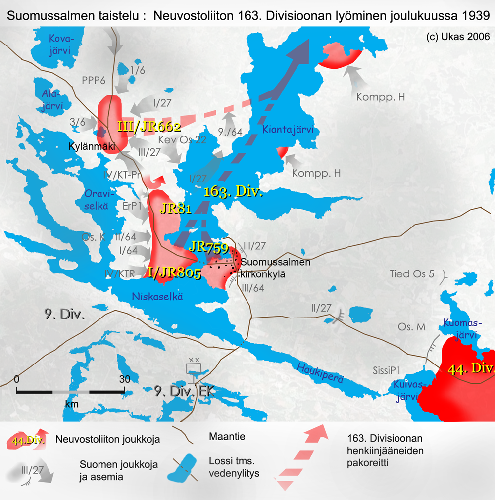 Map: Destruction of Soviet 163rd Division in the Battle of Suomussalmi during the Winter War. This is a png-version to replace former jpg.